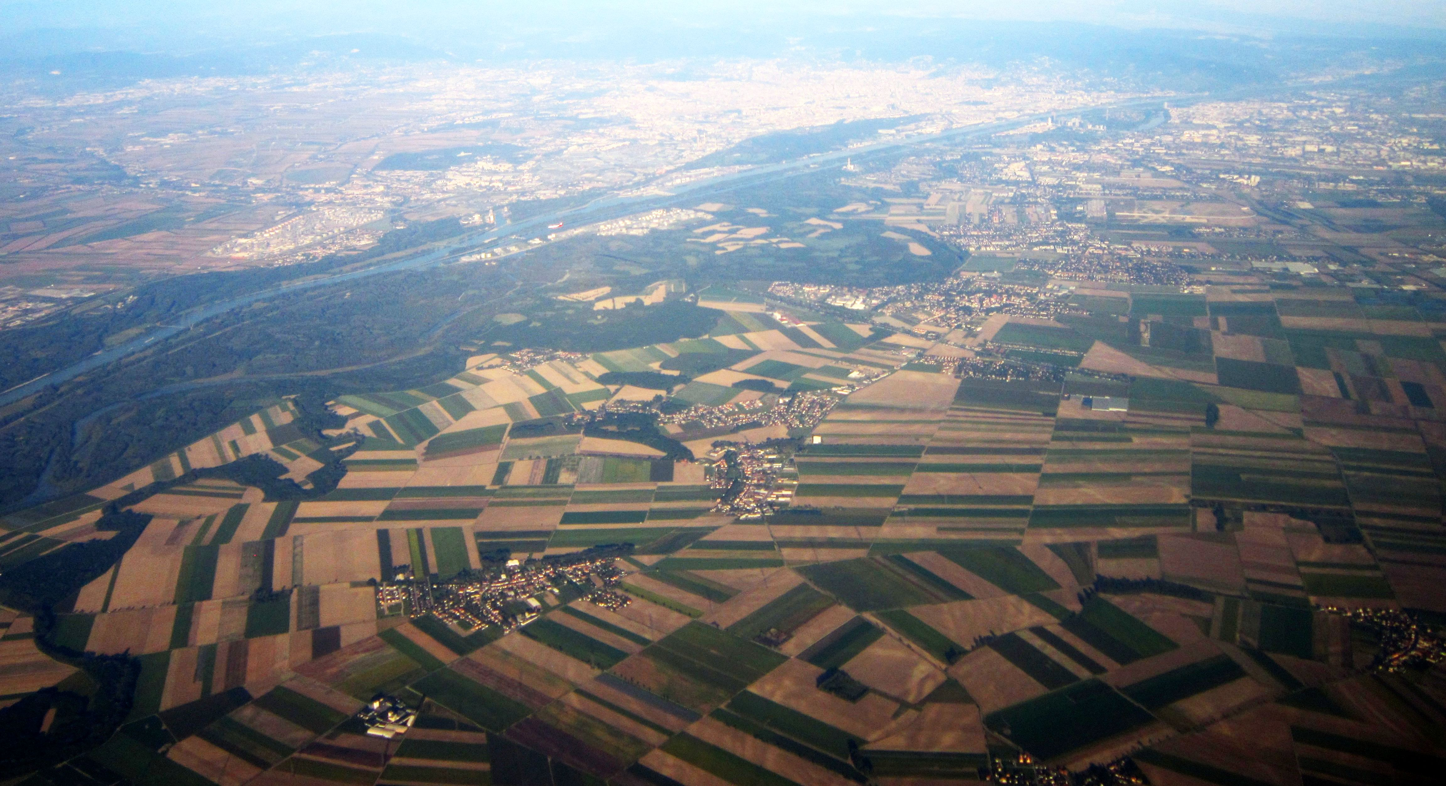 Groß-Enzersdorf (in the center, near the forest) and the dependent villages: Oberhausen (towards foreground), Mühlleiten (to the left, near the forest), Wittau (near Oberhausen), Probstdorf (in the foreground), Andlersdorf (bottom right), Franzensdorf (far right). Behind Groß-Enzersdorf is Essling and Aspern Airfield, and in the background, on the other side of Danube -- Vienna.